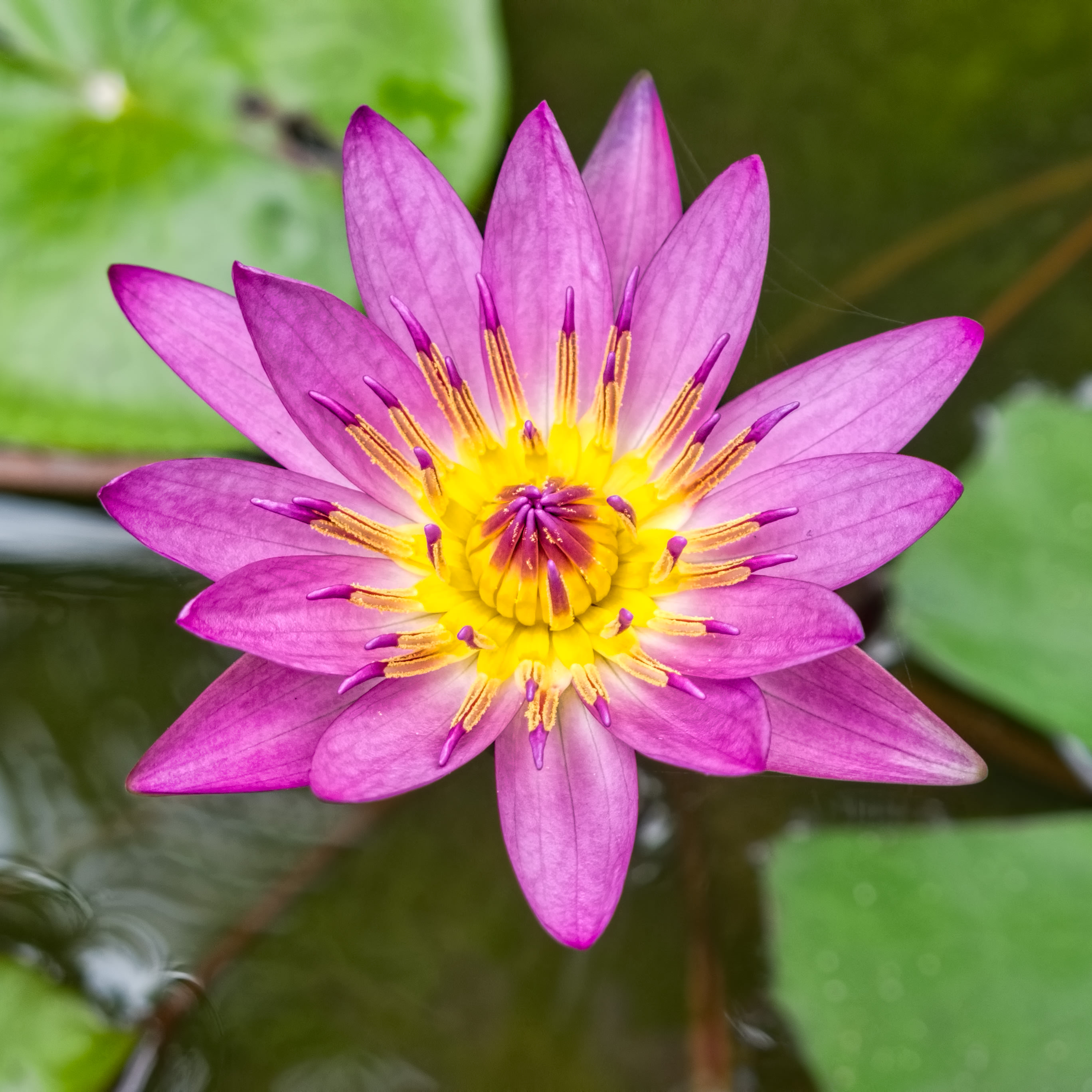 Lily-pad flower. On Google Earth: Sea Turtle Farm & Hatchery 5°59'37.47"N, 80°18'14.37"E